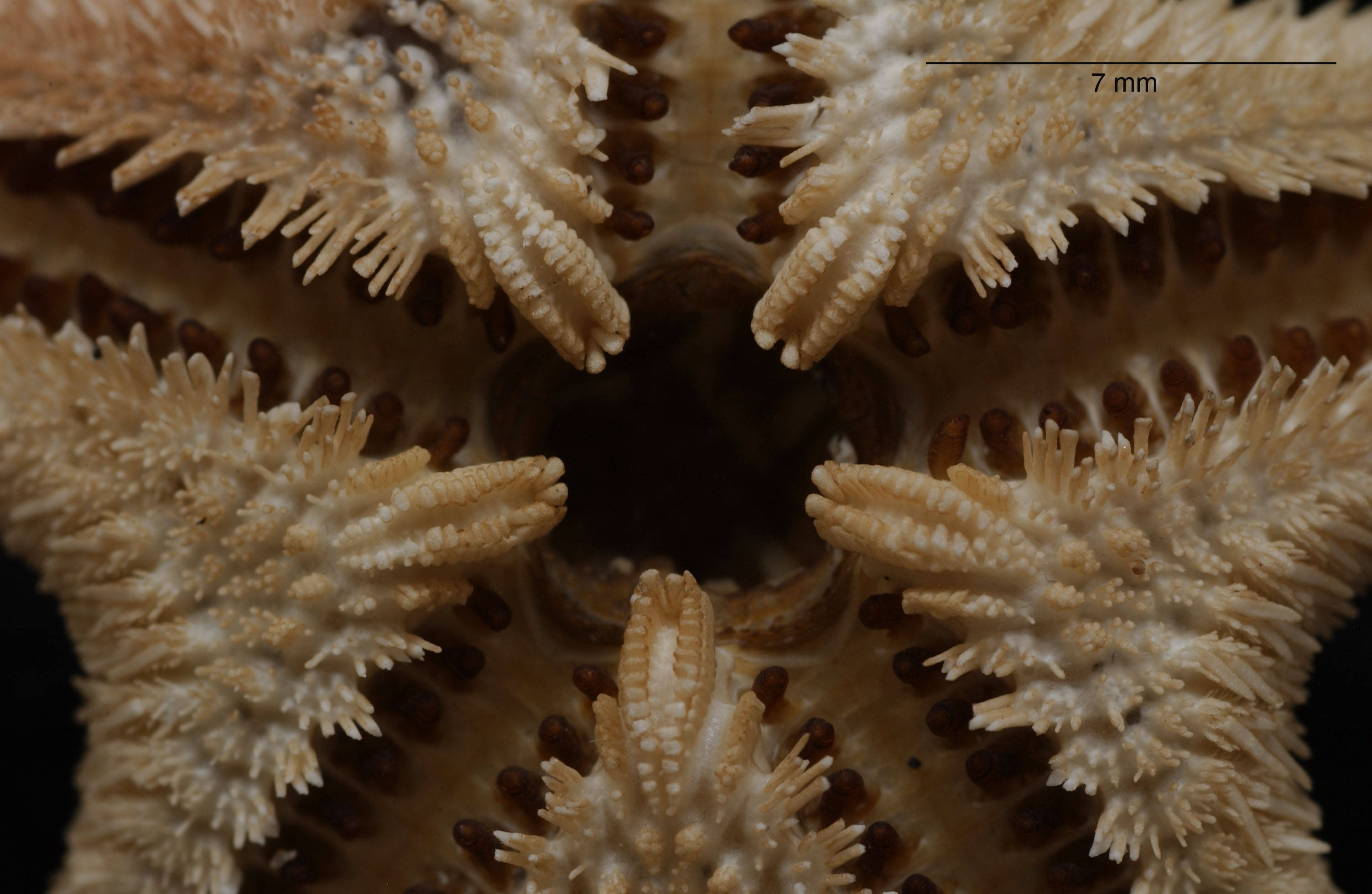 PRESERVED_SPECIMEN; Preparations: Dry; Psilaster charcoti (Koehler, 1906); Individual count: 1; Type status: (no data); Identified by: Clark, H.; Event date: 19580108T00:00:00Z; Additional description: Psilaster charcoti (Koehler, 1906) (USNM E13368) mouth Scale : 7 mm